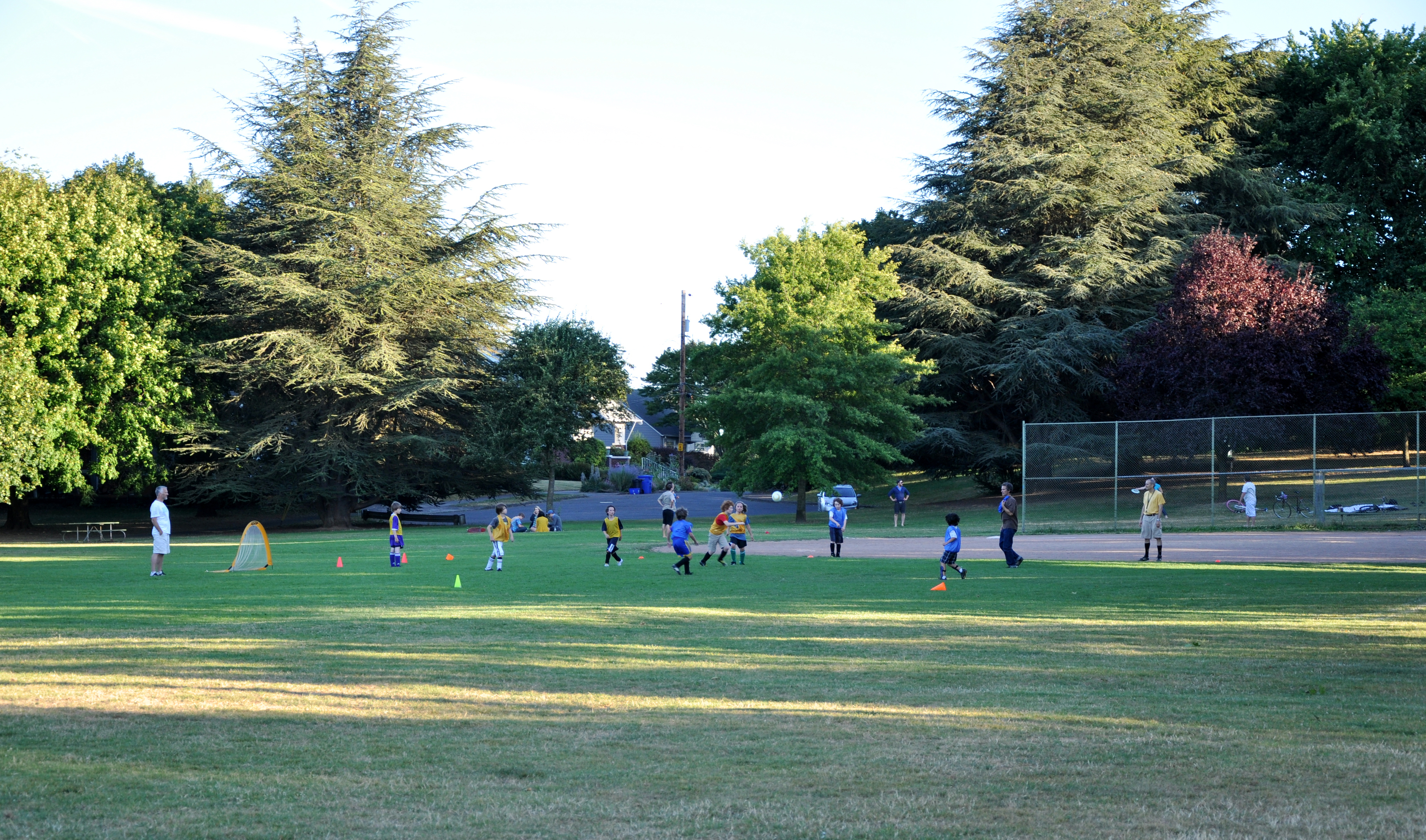 Sewallcrest Park in southeast Portland, Oregon, in the United States